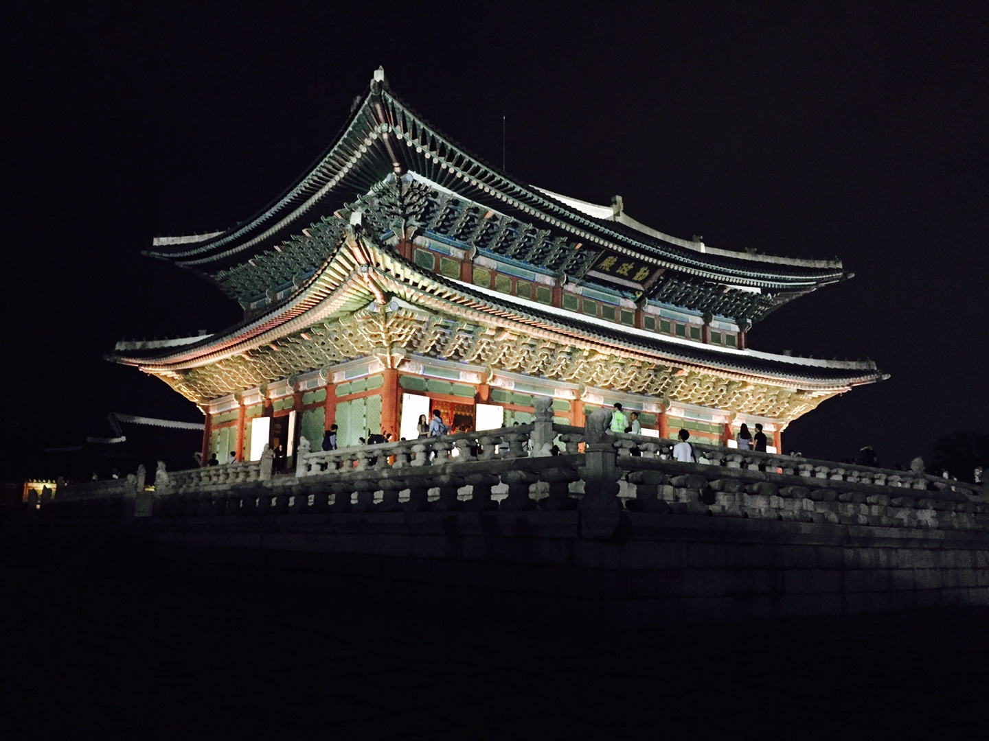 Opening at night of Gyeongbokgung Palace